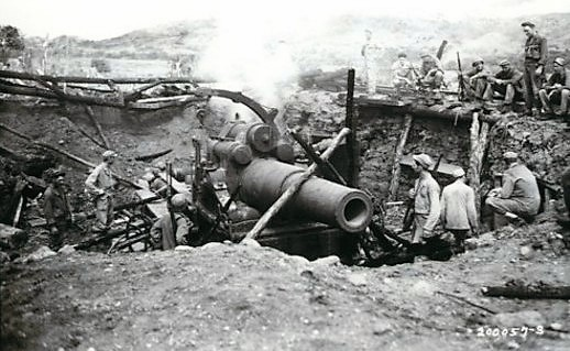 The following shows the 12'inch cannon, one of three, that was taken by the 158th Infantry on the Damortis-Rosario road in the Philippines. Considered an objective that only a full division could do the 158th conducted the mission itself. Though the whole unit was cited only one company was awarded.